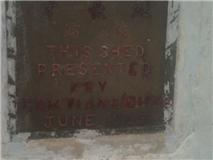 Donation of Shed at Jelutong Temple